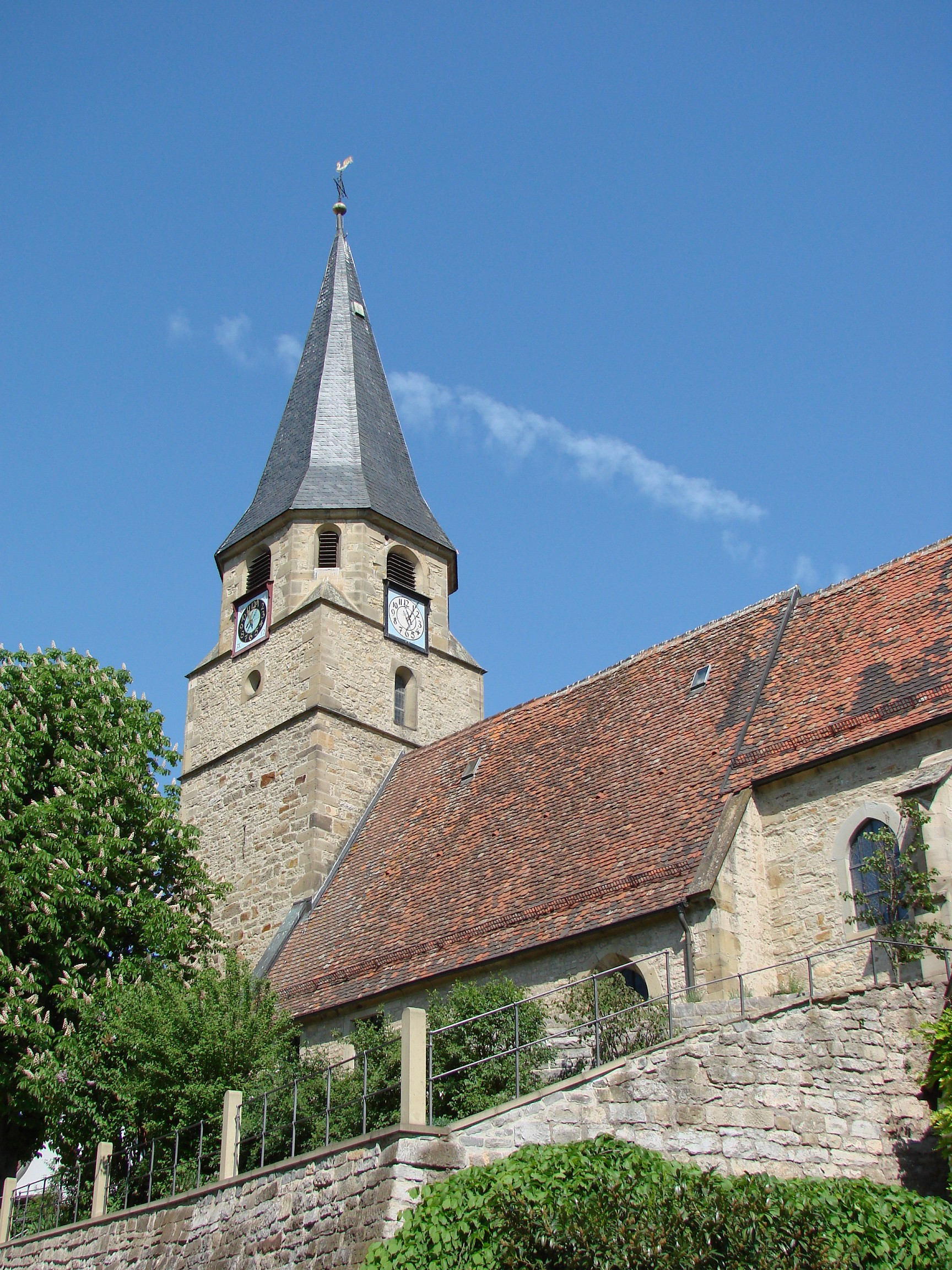 Roßwag, Germany, St. Martin's church, 13th century